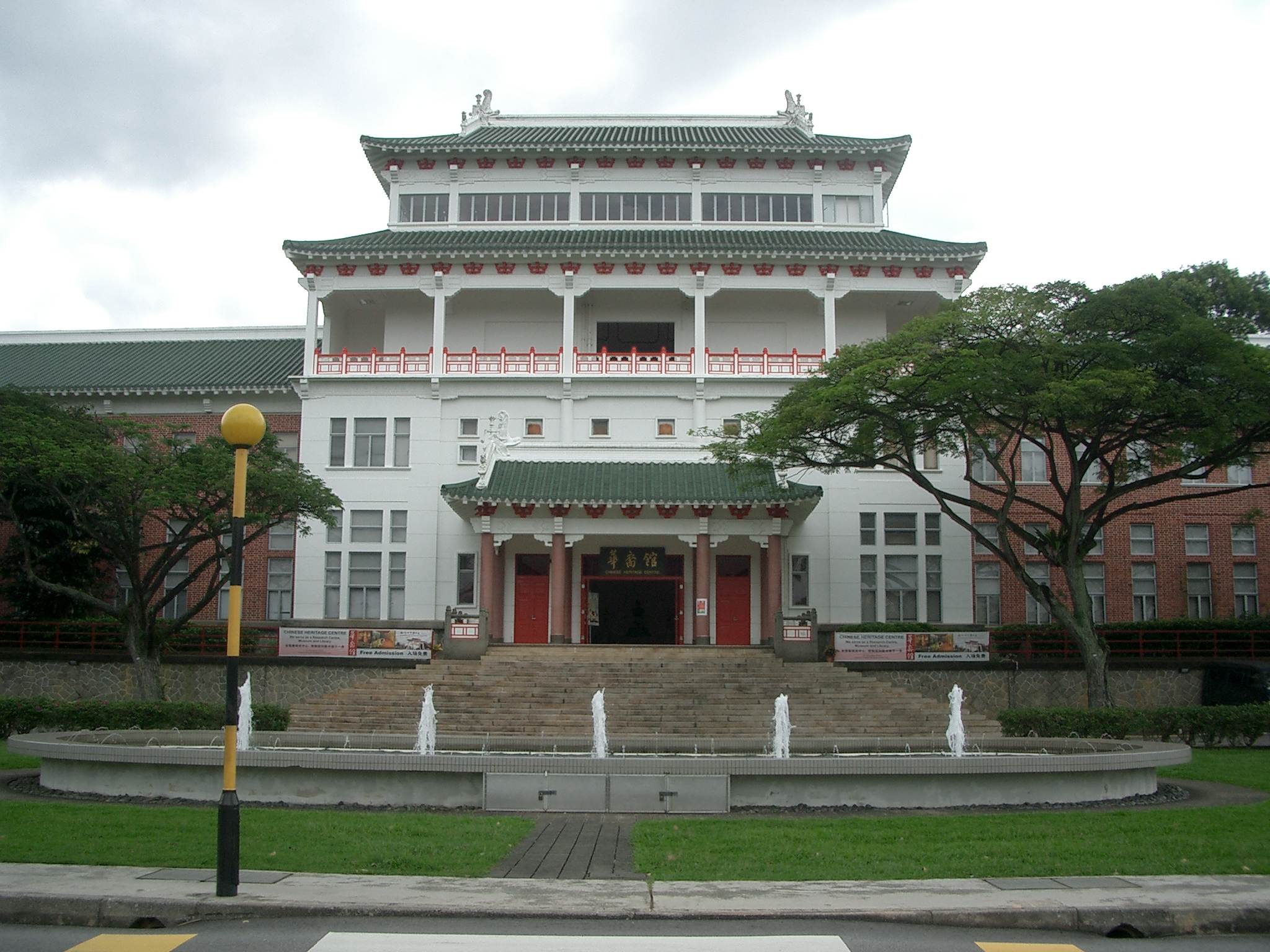 Main Building, Nayang_University, Singapore